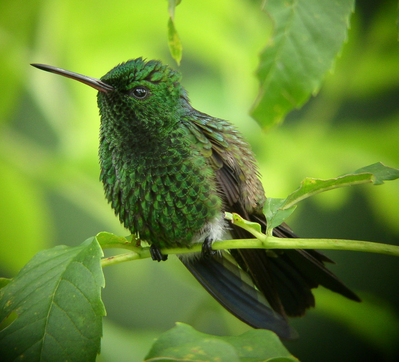 Perched Copper-rumped Hummingbird (Amazilia tobaci), Asa Wright Nature Centre, Trinidad